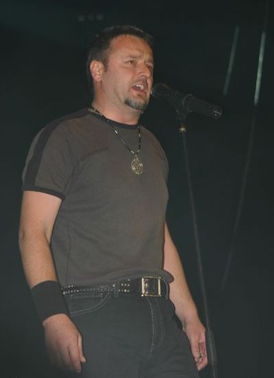 Marko Perković Thompson on concert in Frankfurt/Main on 21. April 2007